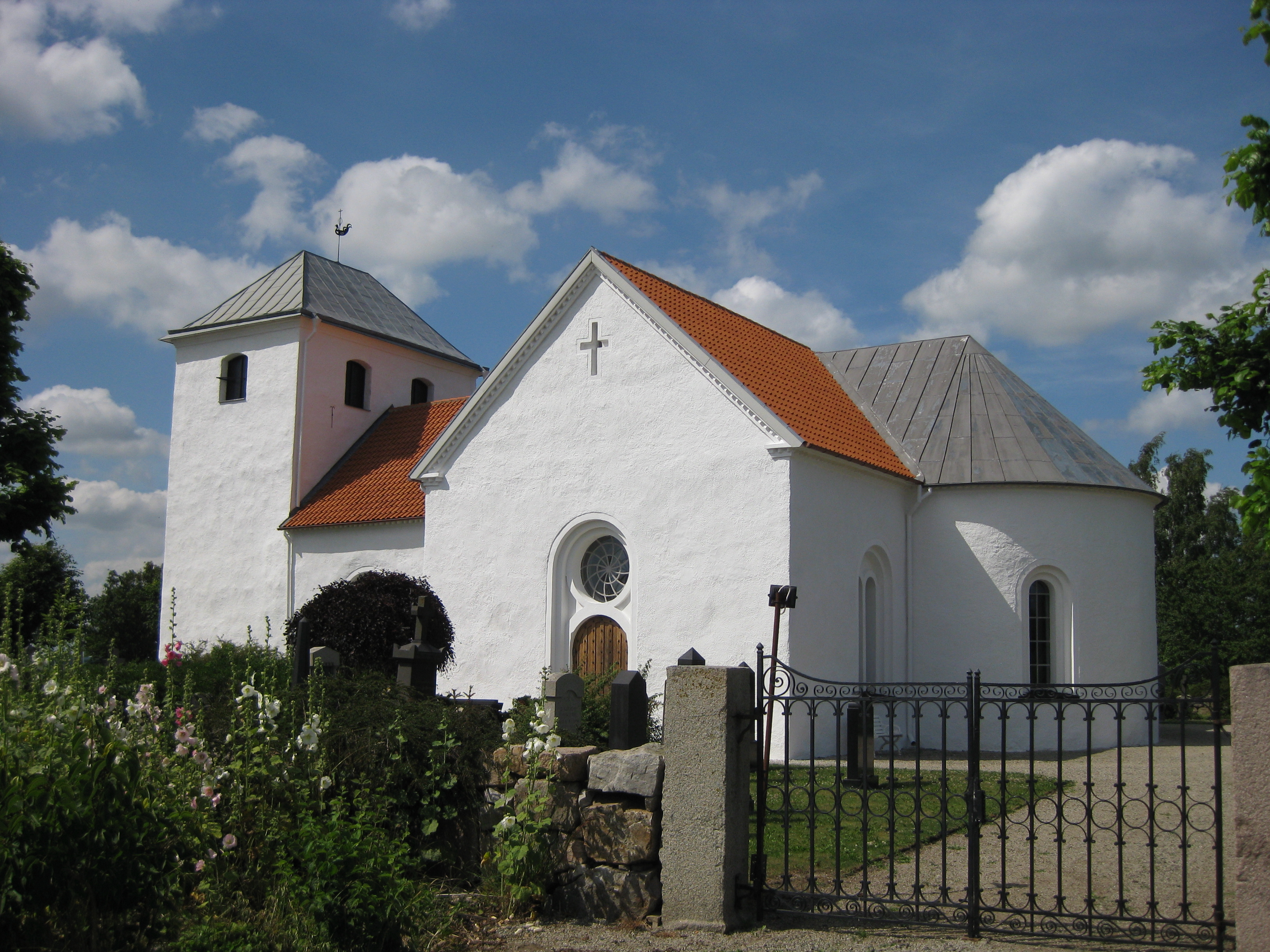 Bolshög church in Scania, Sweden